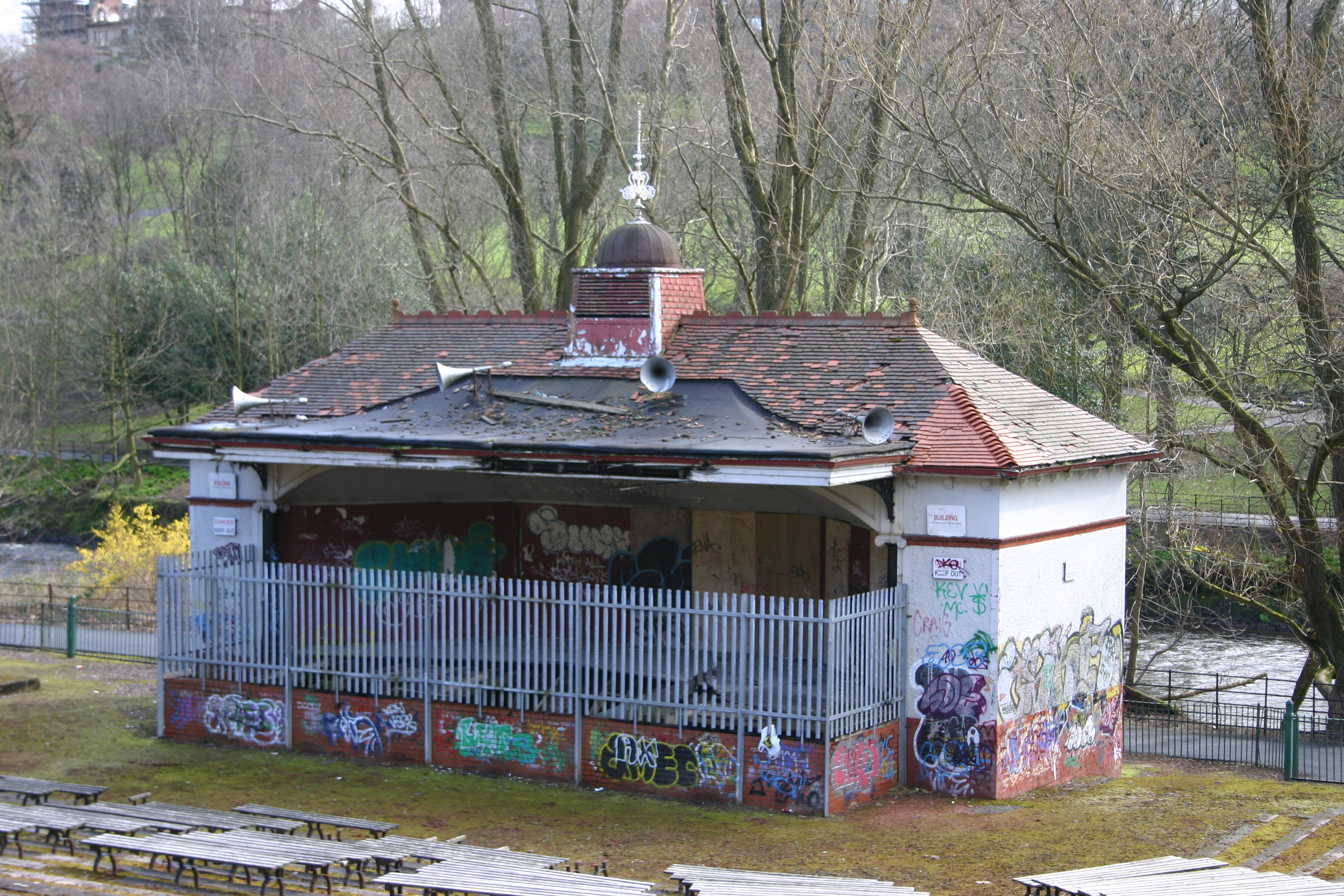 Kelvingrove Bandstand, taken by myself march 2007